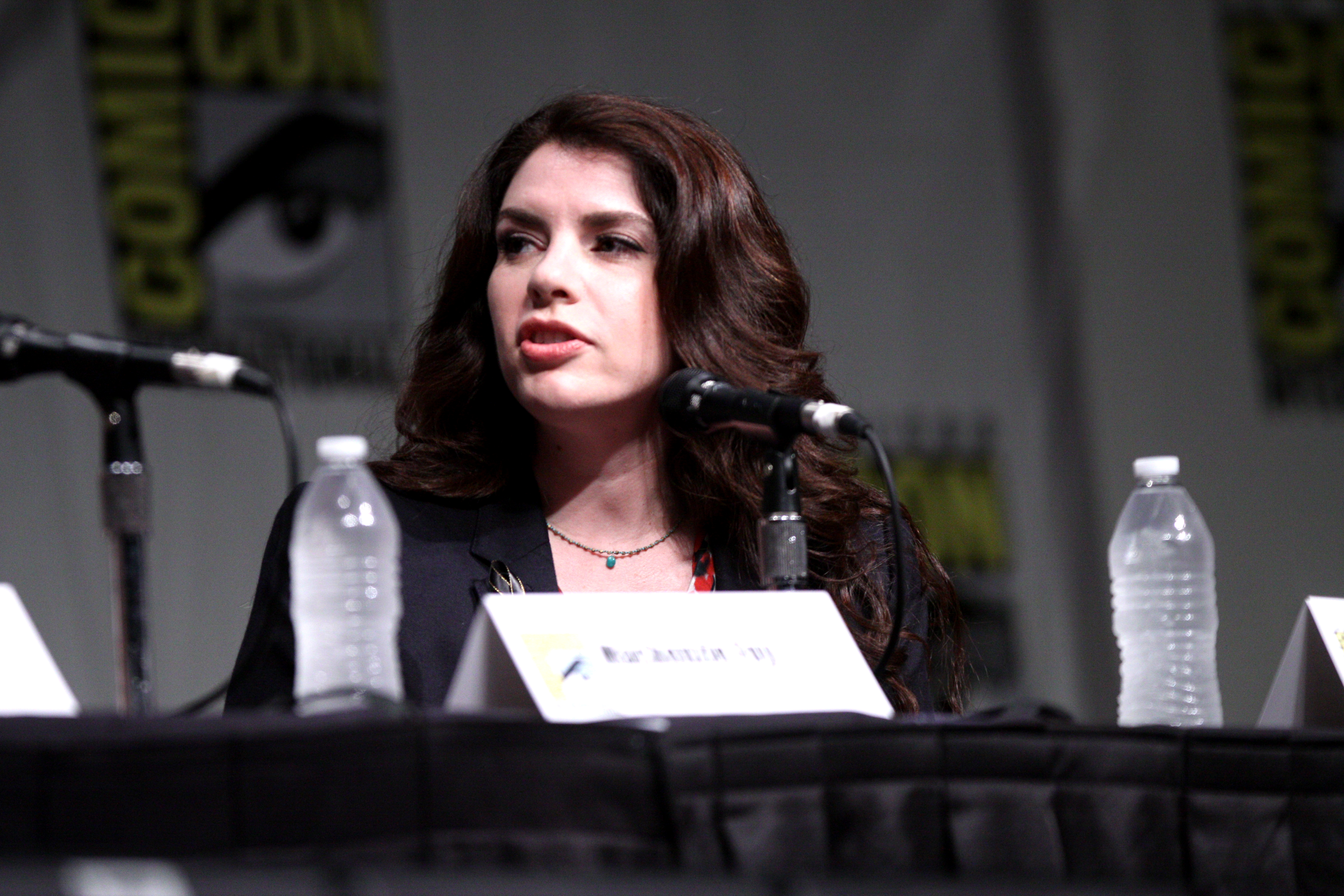 Stephenie Meyer speaking at the 2012 San Diego Comic-Con International in San Diego, California.